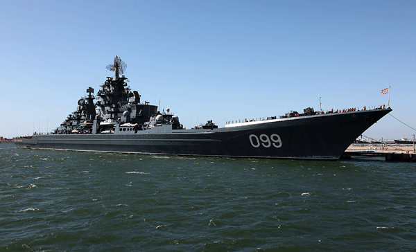 Russian Battle Cruiser Pyotr Velikiy 099 (Peter the Great)